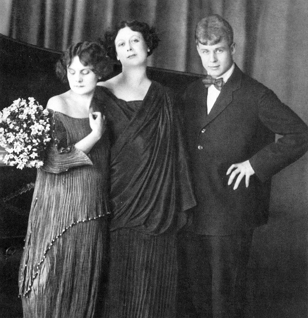 Sergei Yesenin, Isadora Duncan and her adopted daughter, Irma. Photo. 1922. Irma is wearing a Fortuny Delphos gown.